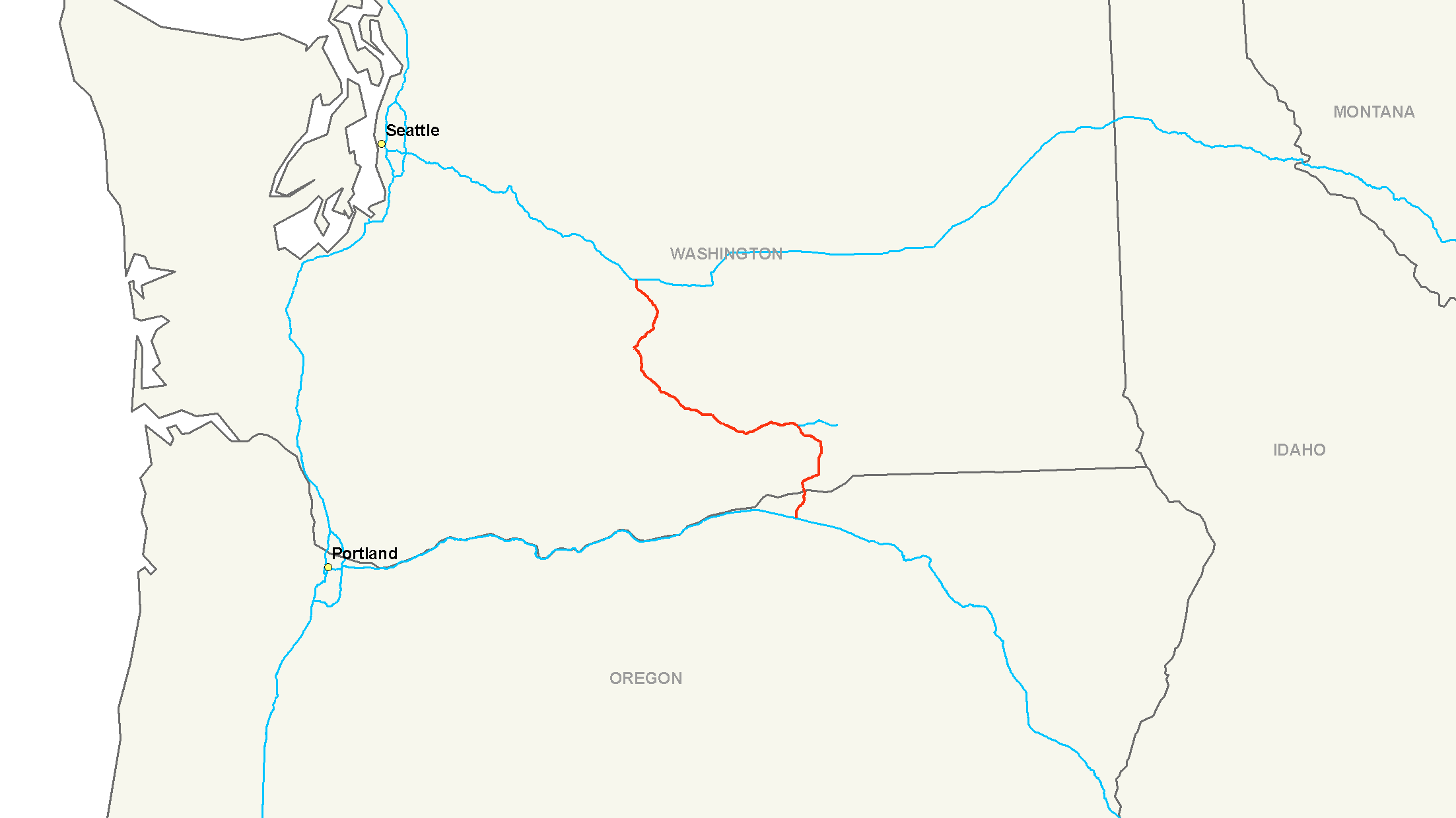 Map of Interstate 82